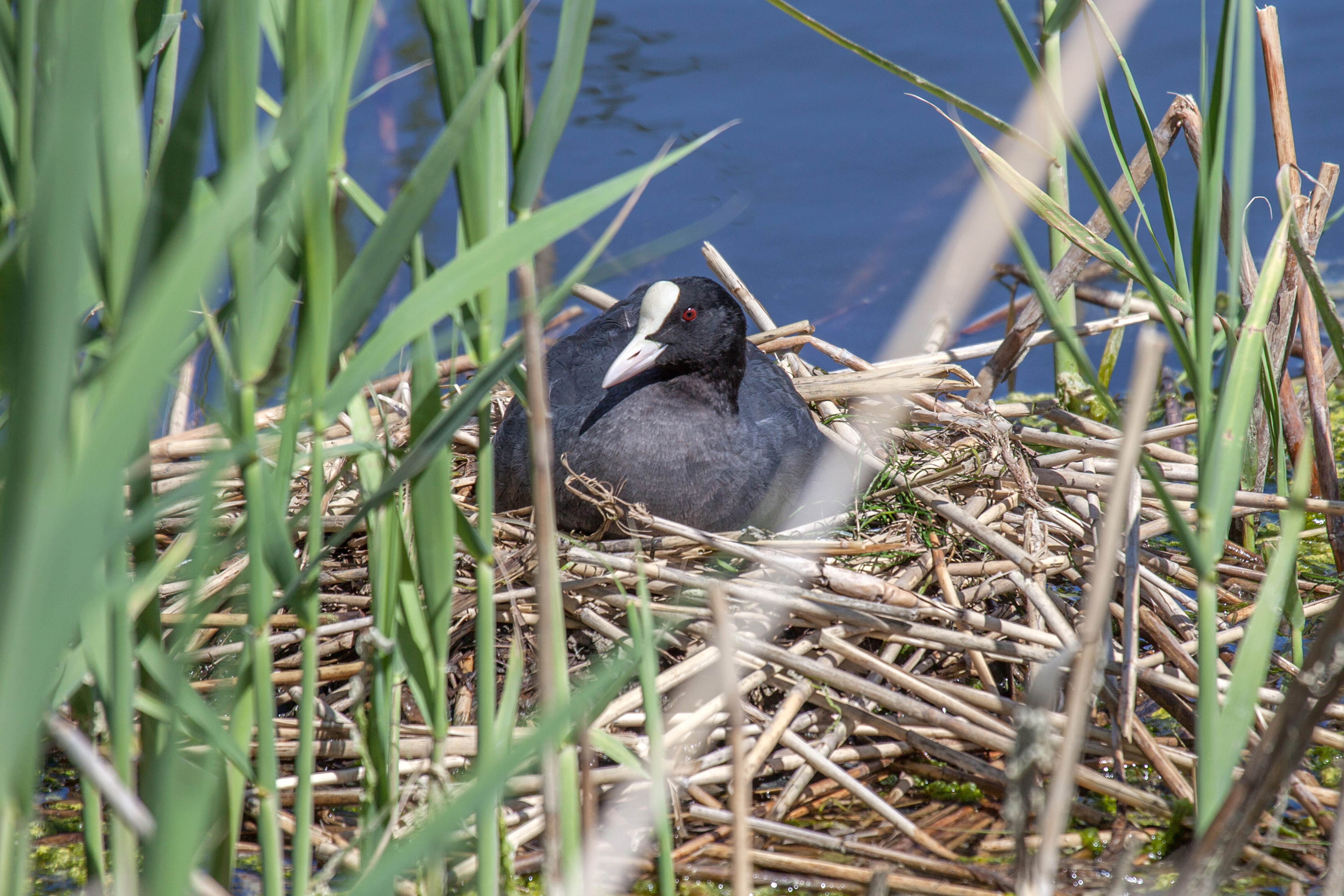 A Eurasian Coot on a nest by water in Vaxholm, Sweden.